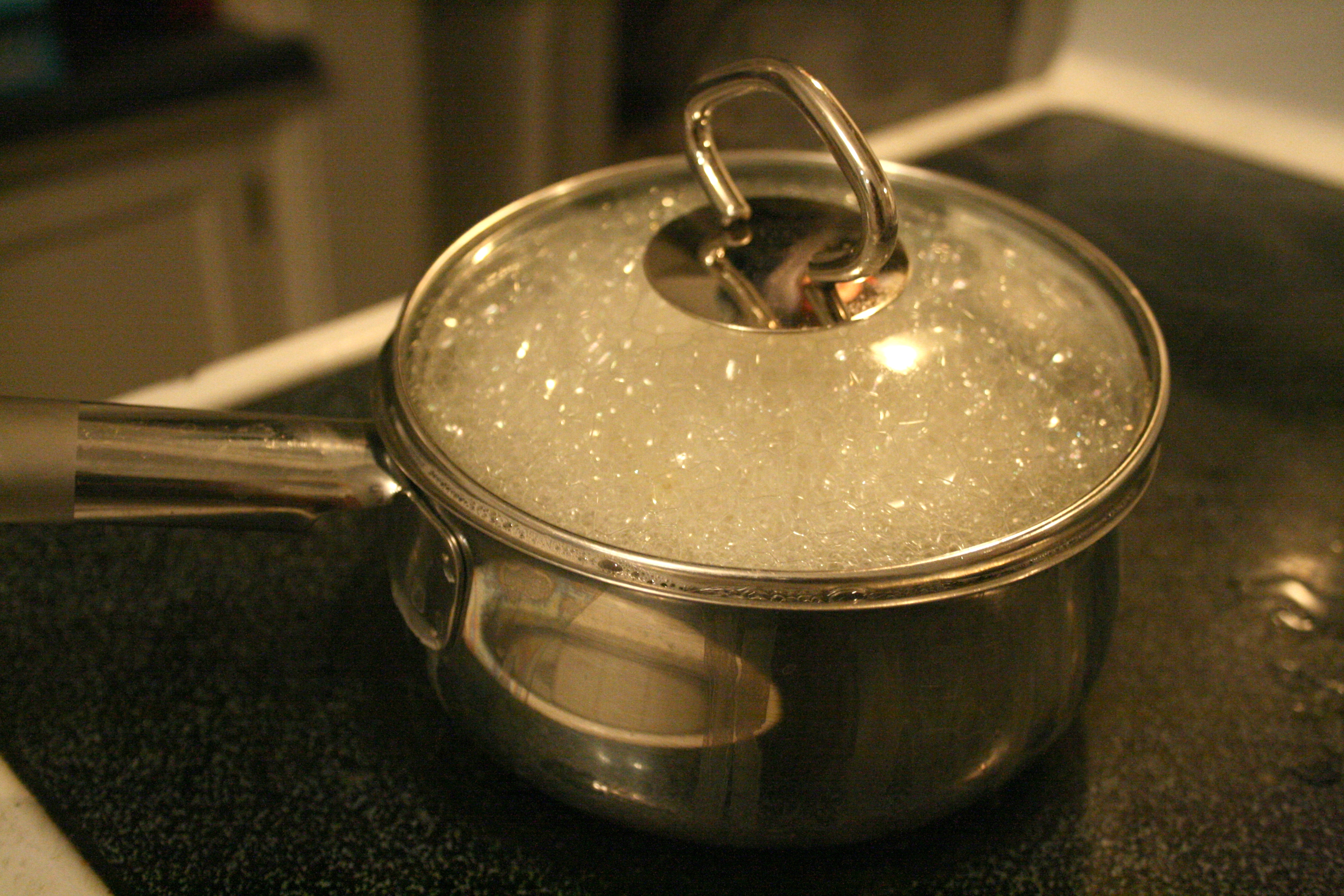 Water boiling in a pot while cooking rotini pasta on an electric stove.